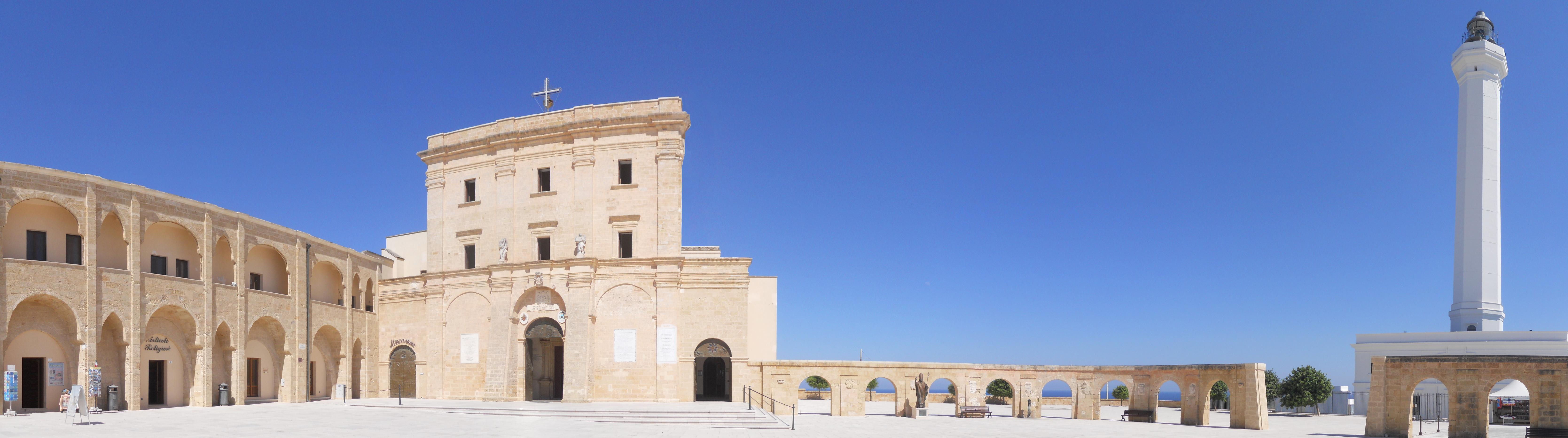 The square in front of the Sanctuary of Santa Maria di Leuca, Italy. On the left are the monastery and the church, on the right the lighthouse.